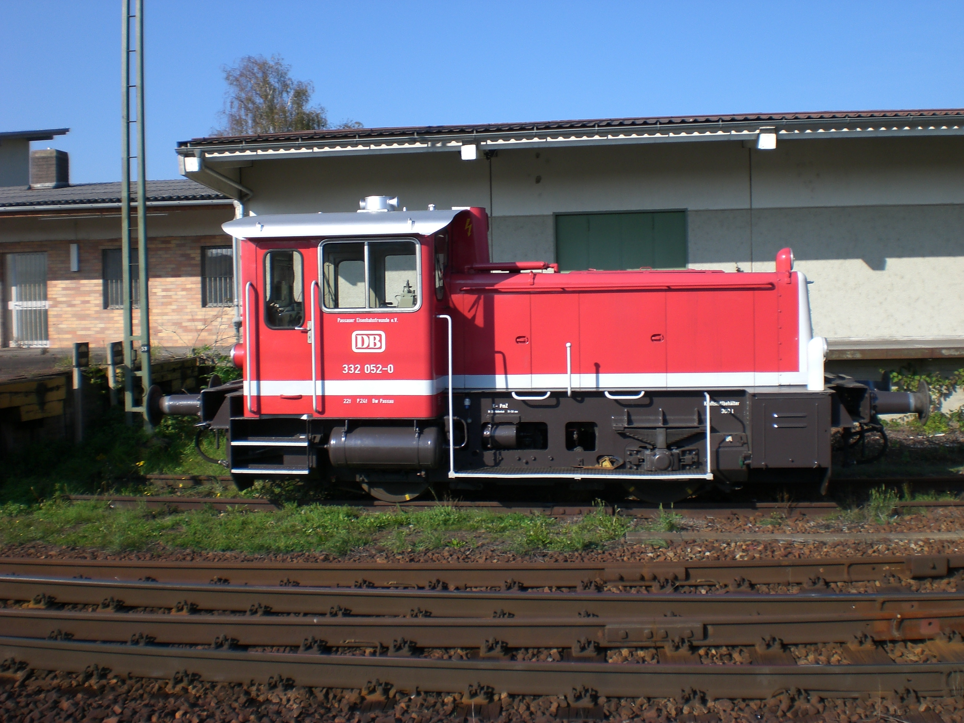 Köf III belonging to the Passau Railway Society photographed at Vilshofen on 7 Oct 2007 by the author